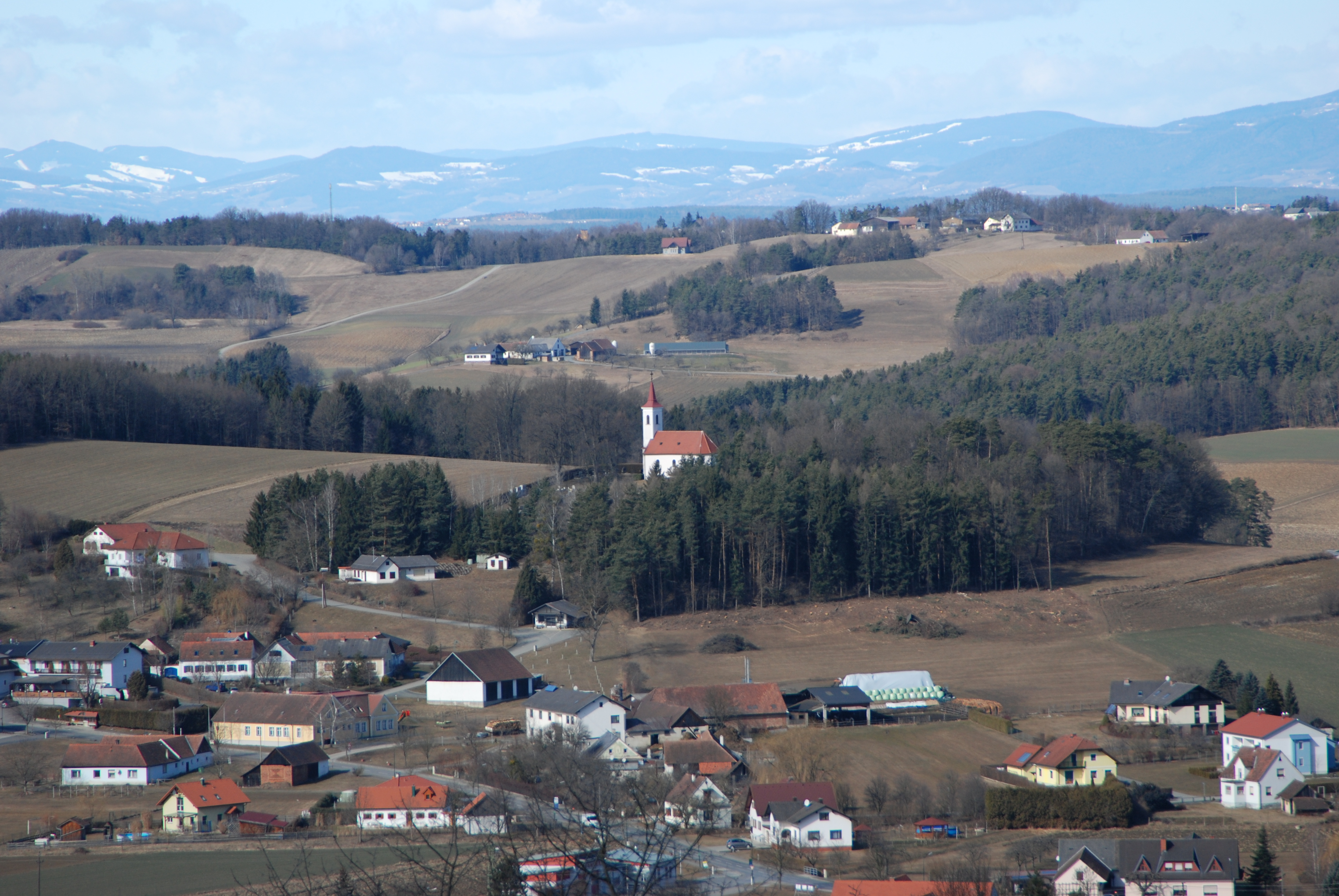 Neusiedl bei Güssing